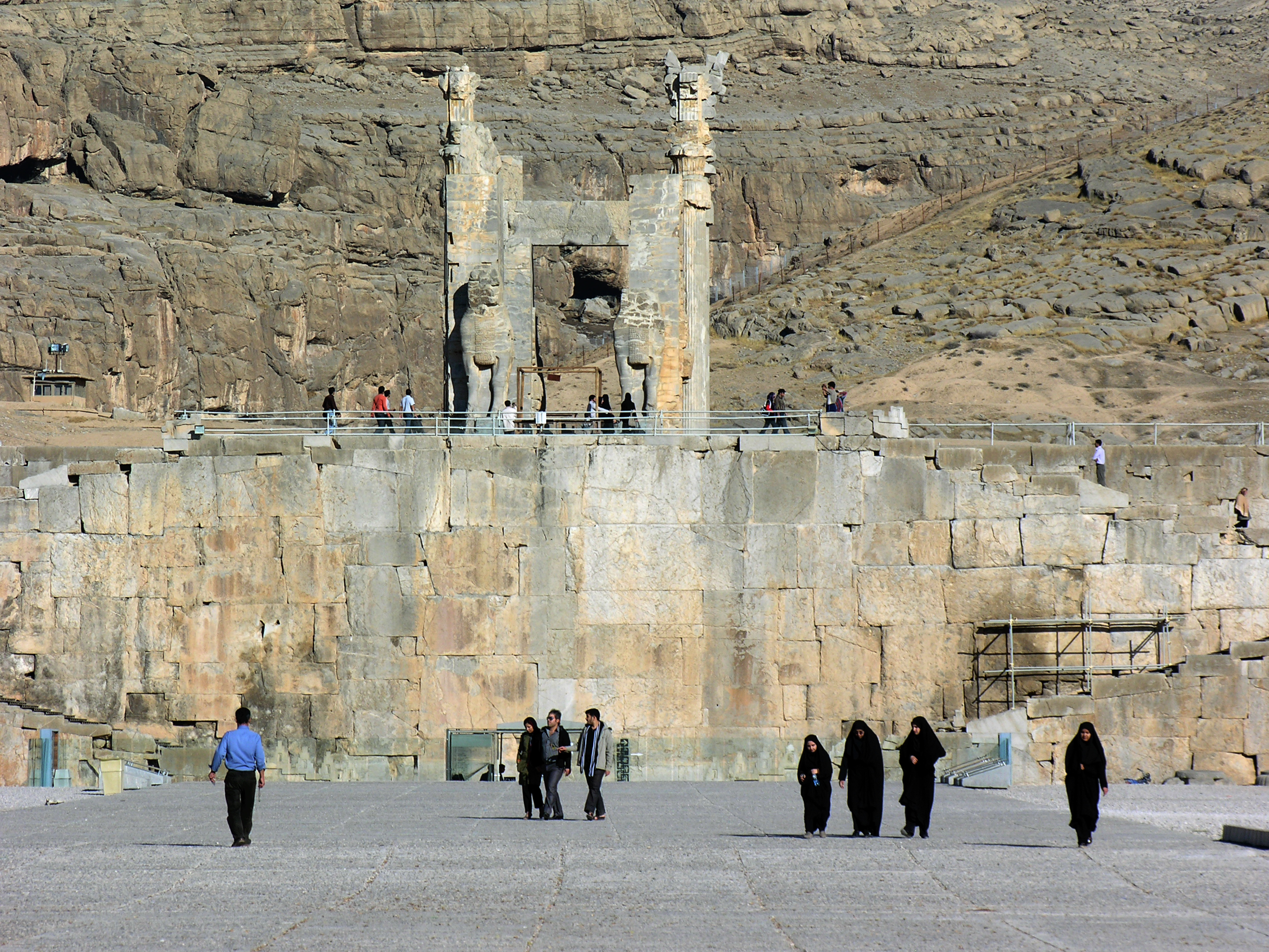 Iran, Entrance to Persepolis with the gate of all nations